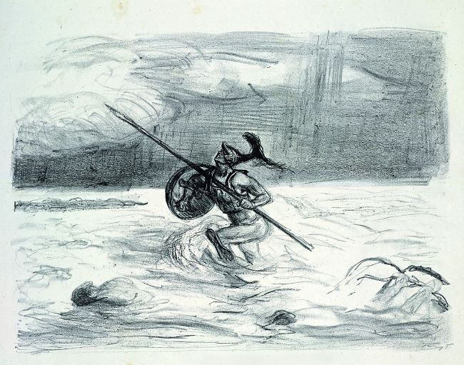 Editor: Bruno Cassirer, Berlin 1916